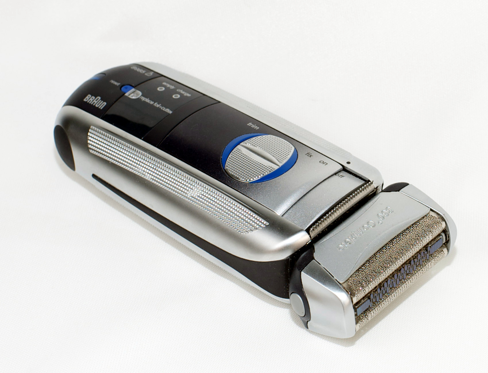 Oscillating electric razor. Photo by Bill Ebbesen